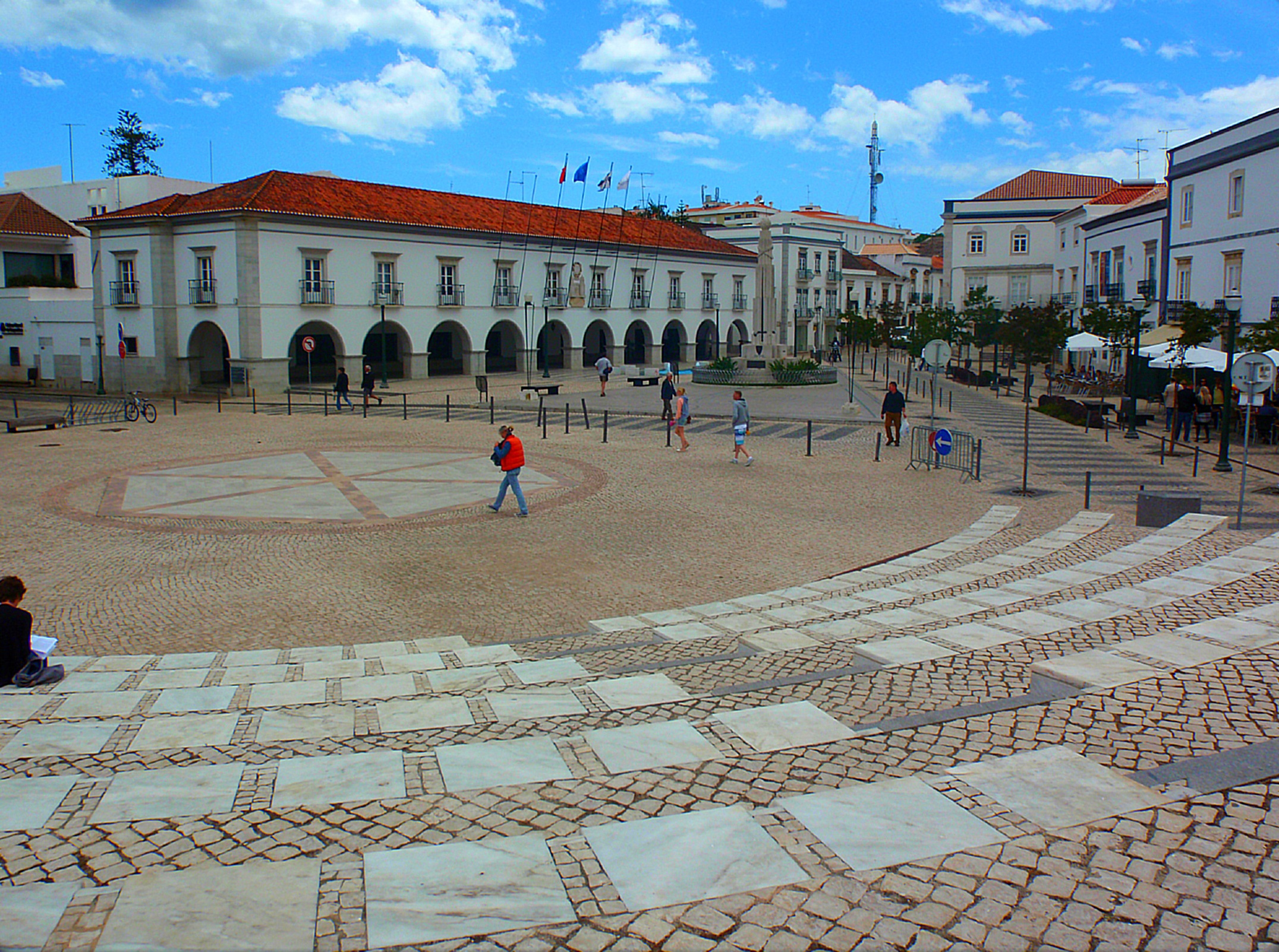 The Camara Municipal located on Praça da República in the town of Tavira, Algarve, Portuga.